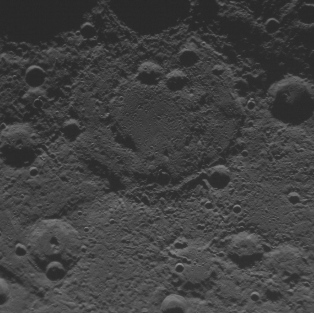 Cervantes crater on Mercury. MESSENGER Narrow Angle Camera. North is in upper left. Emission Angle: 1.4 Incidence Angle: 84.7 Latitude: -75.7 Longitude: 240.6 Phase Angle: 85.8